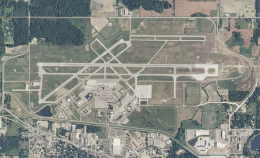 USGS orthophoto of Capital Region International Airport in Lansing, Michigan, United States - April 2007. Scale 1:36,112